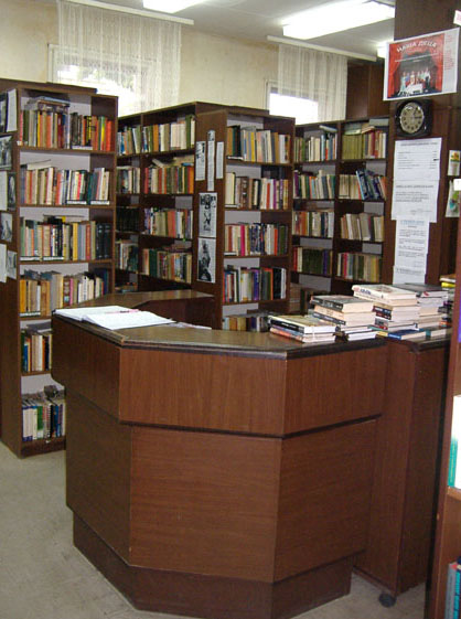 Public library Dusan Matic - adult section